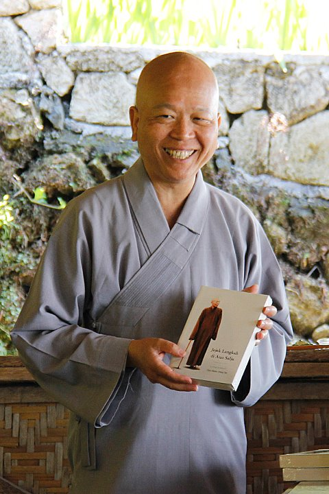 Guo Yuan Fashi at the end of 9-days Ch'an Huatou Retreat at Bandungan, Central Java, Indonesia (August 2011)